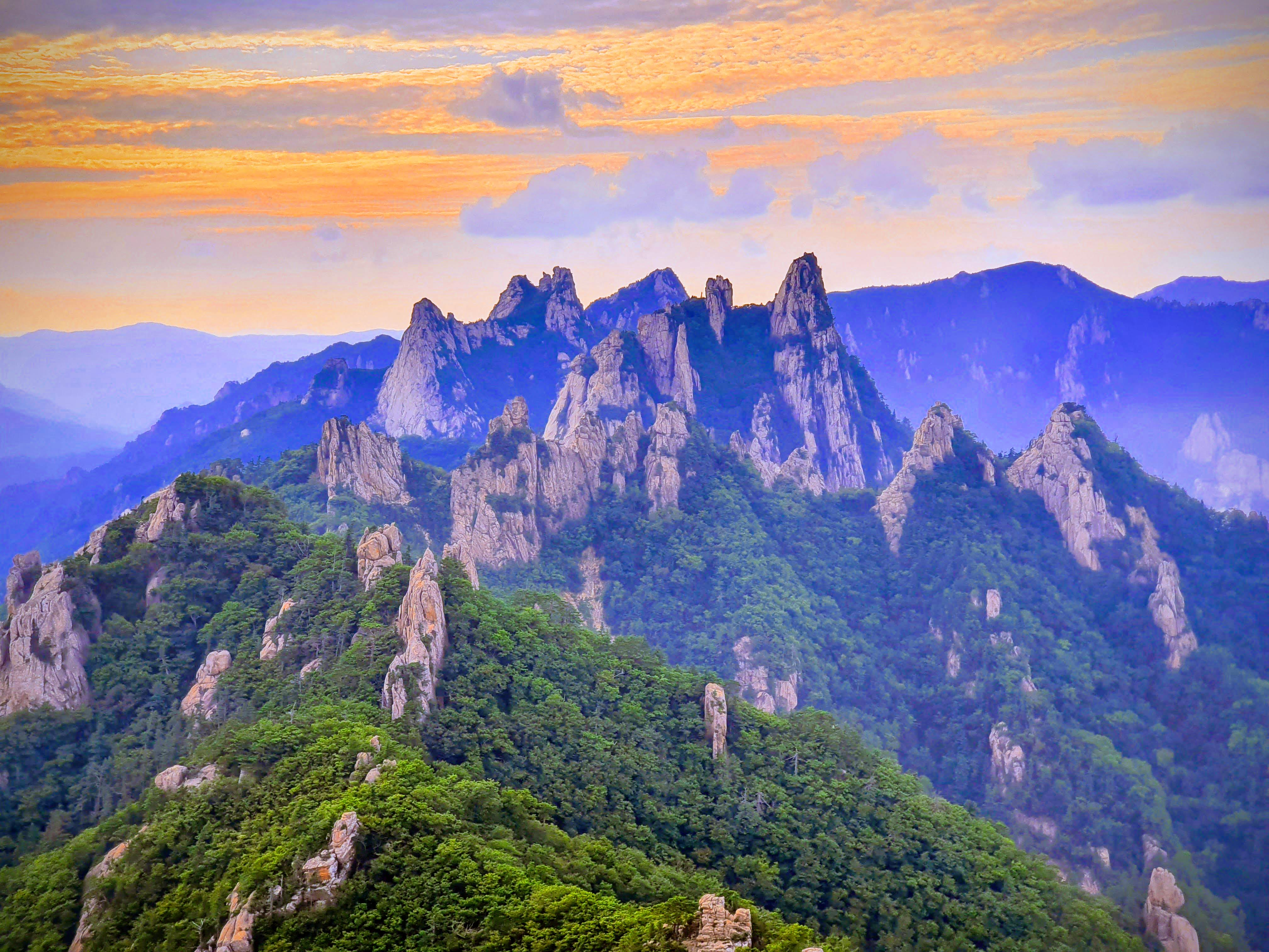 The Dinosaur Ridge at Seoraksan, at sunset